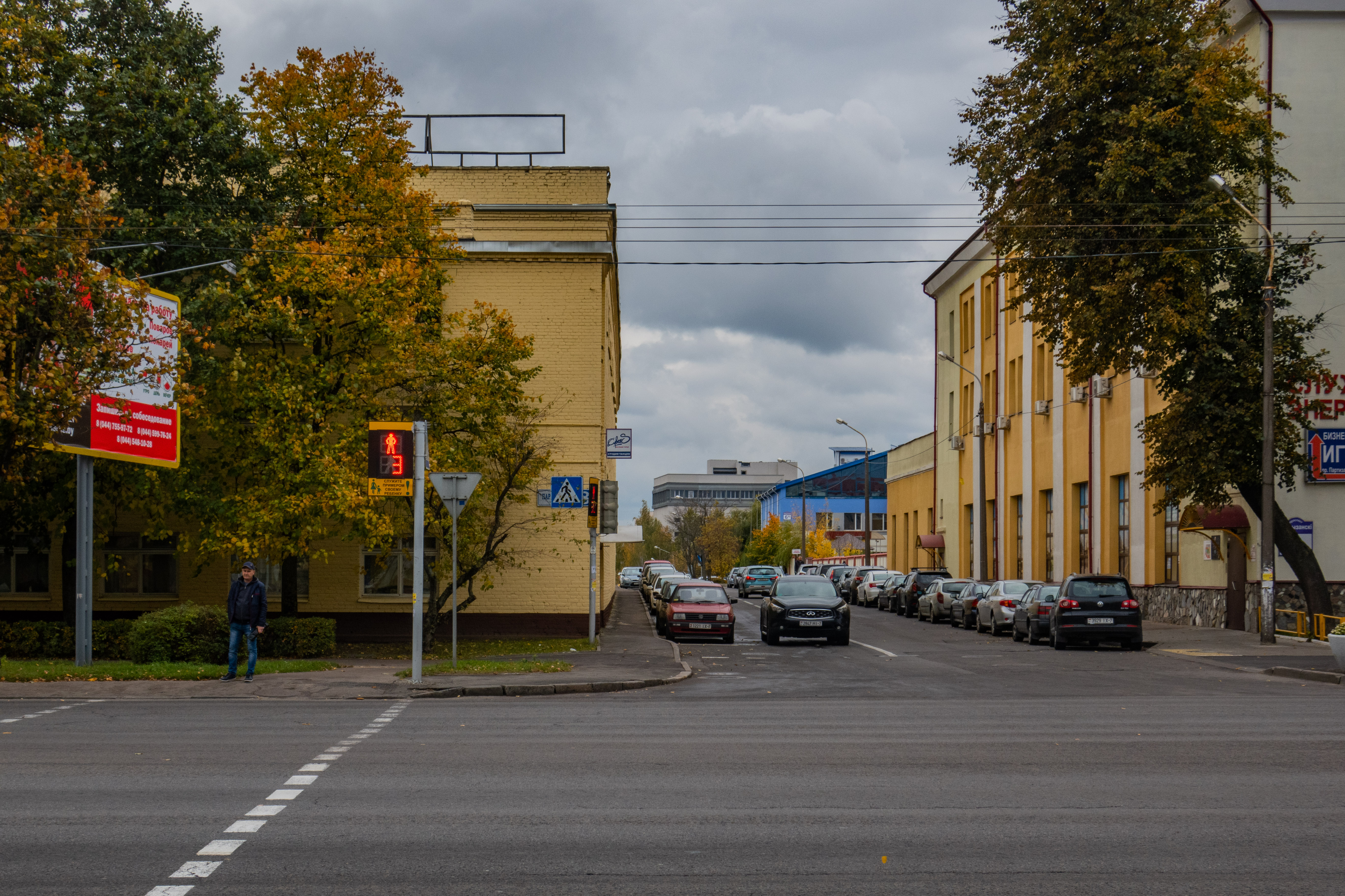 Partyzanski avenue — Vielasipiedny lane. Minsk, Belarus